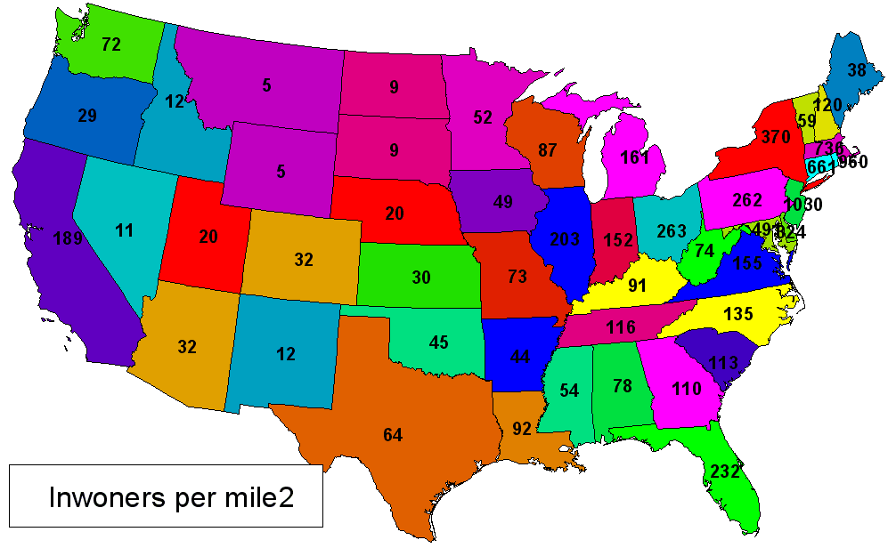 Map showing number of inhabitants per square mile of states of the United States. Intentionally faulty legend which doesn't describe the meaning of the colours.